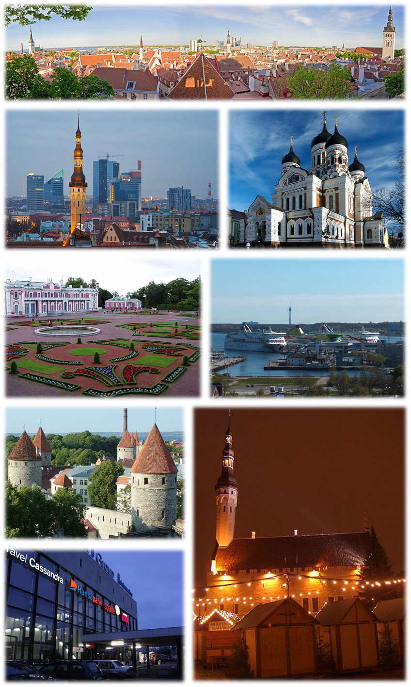 Collage of Tallinn.